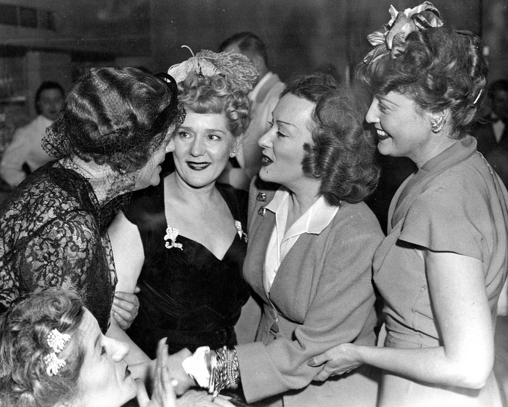 Harriet Kreisler, Mary Pickford, Gloria Swanson, and Jeanette MacDonald at the Stork Club in 1944.